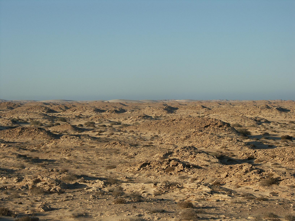 Early morning, Western Sahara.